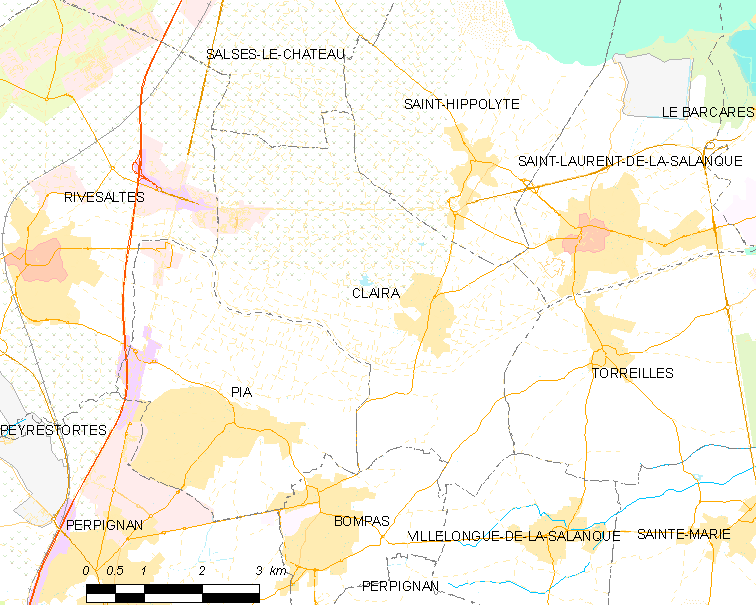 Map of French municipality